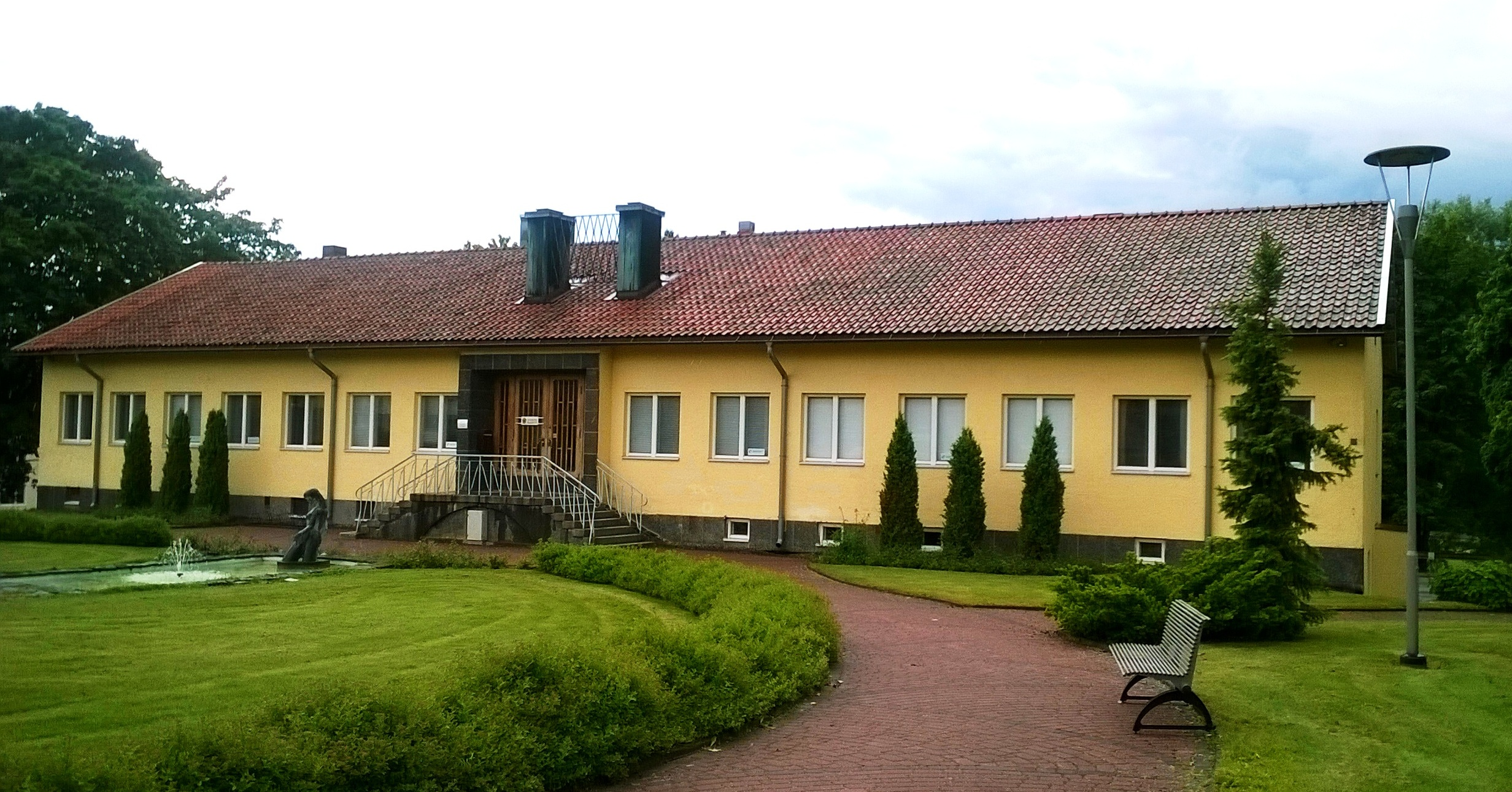 Former city hall in Karis, architect Hilding Ekelund